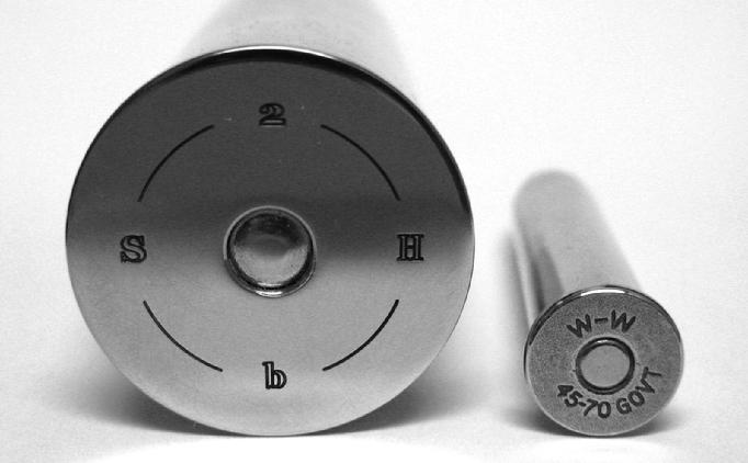 Cartridge comparison